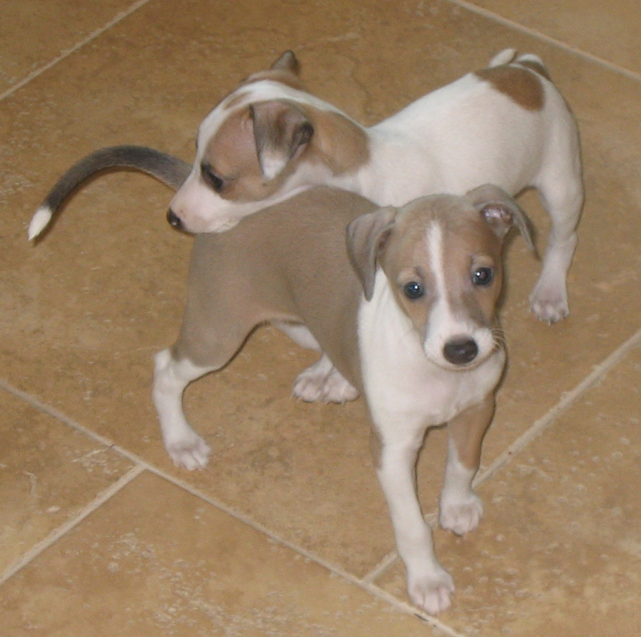 Italian Greyhound Puppies